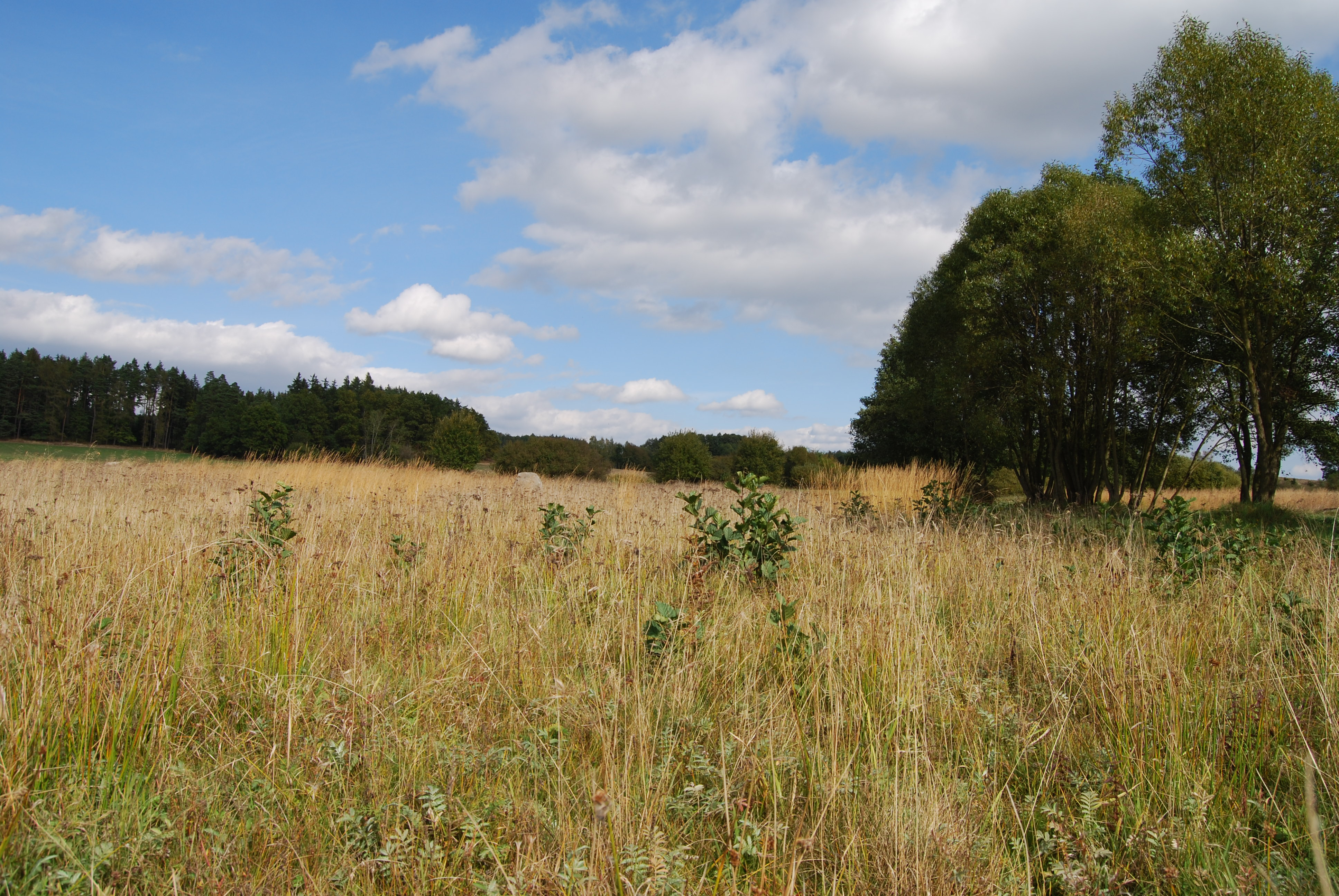 Natural monument Kocelovické pastviny, Strakonice District, Czech Republic.